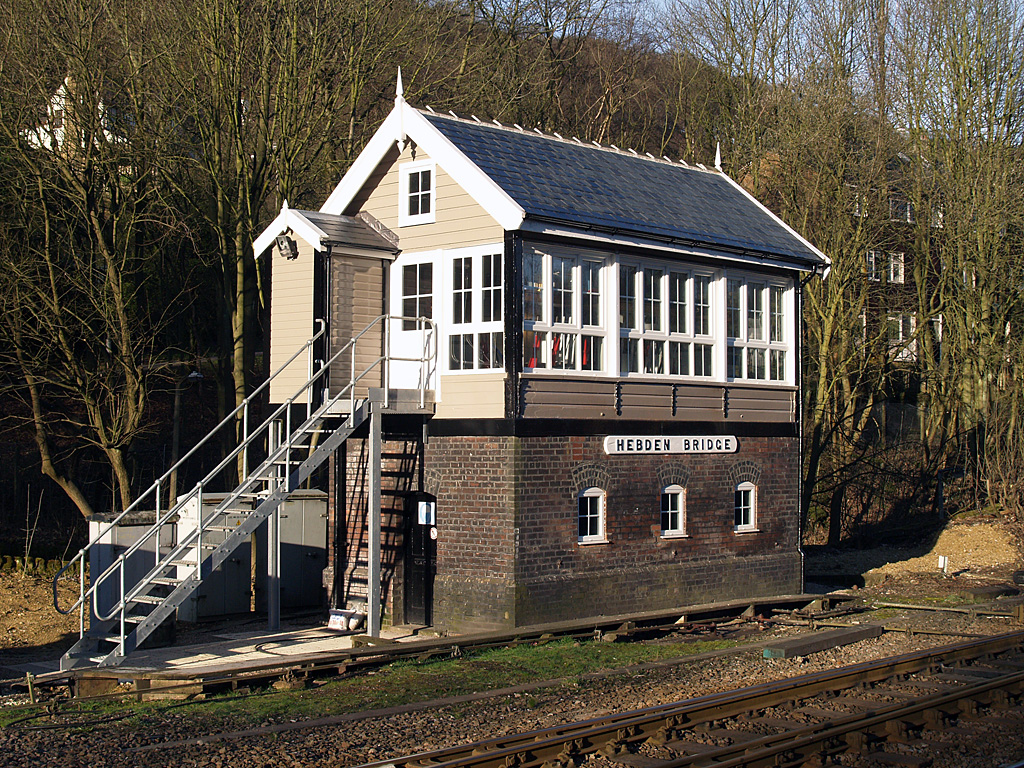 Hebden Bridge signal box, a Lancashire & Yorkshire Railway Standard design. Wednesday 19th March 2008